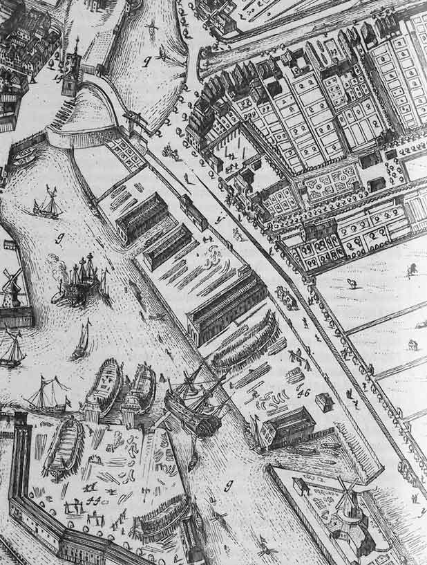 Wall map of Rotterdam by Johannes de Vou, detail of the area near the Oostpoort